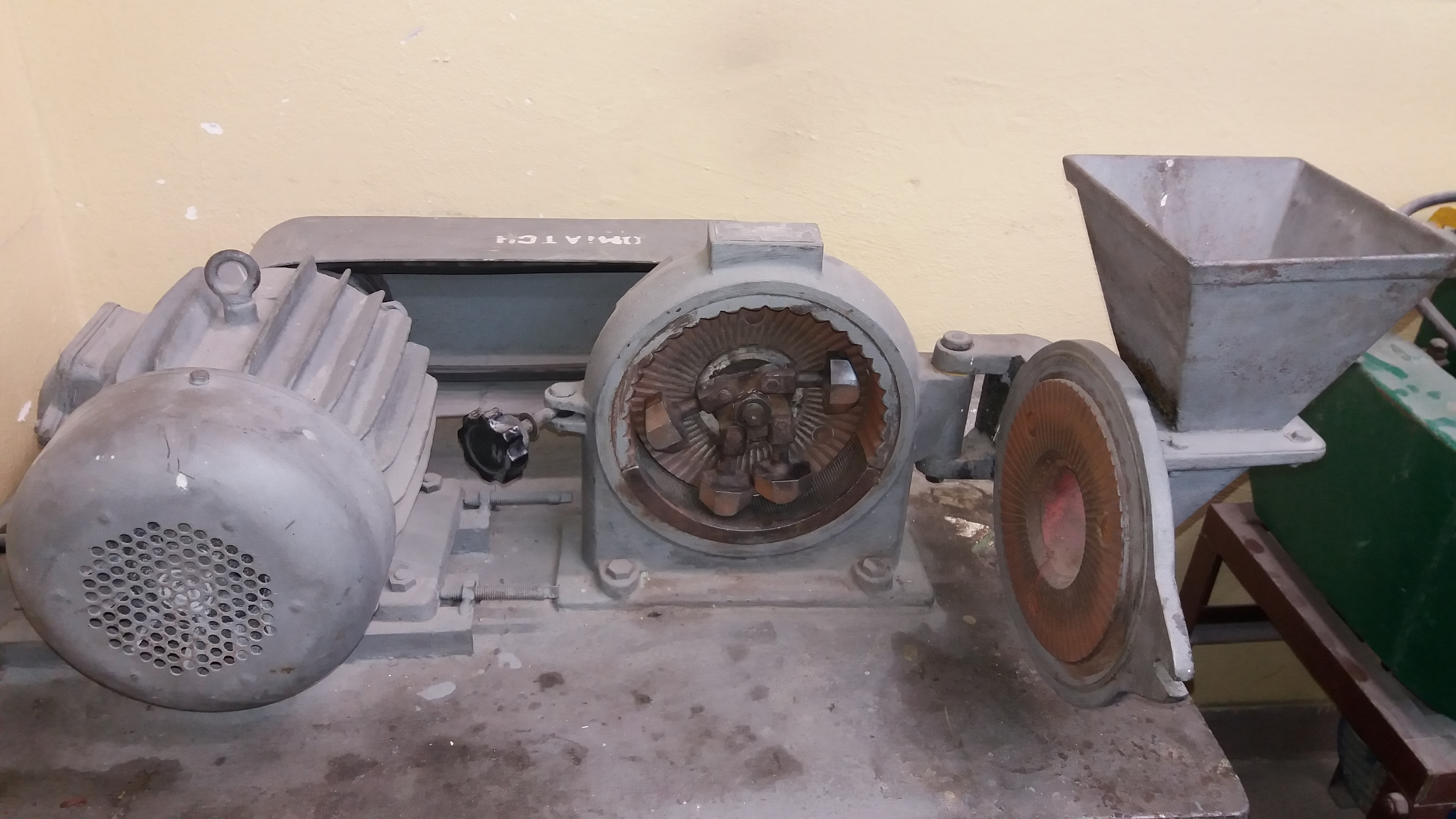 A tabletop hammer mill. The input hopper is part of the front door, open in this shot to show the inner mechanism. The outlet has a mesh to determine the maximum particle size. Property of Faculty of Chemistry, Gdańsk University of Technology.